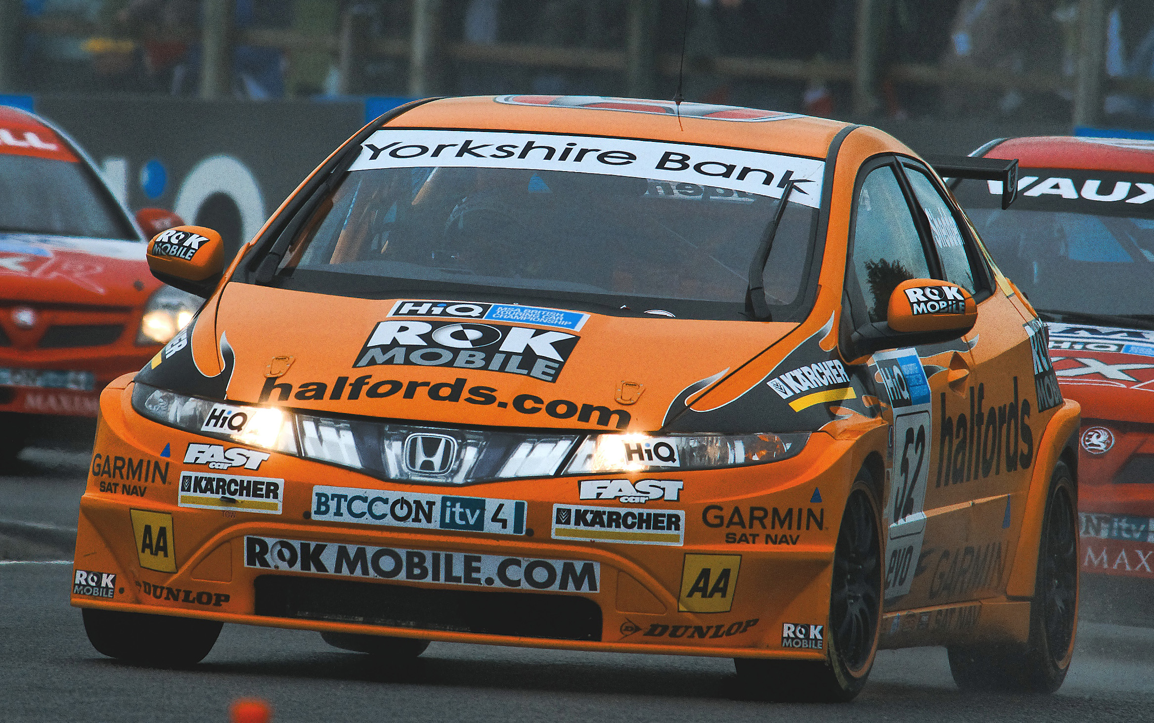 Gordon Shedden driving Honda Civic at Croft (2008 BTCC season).